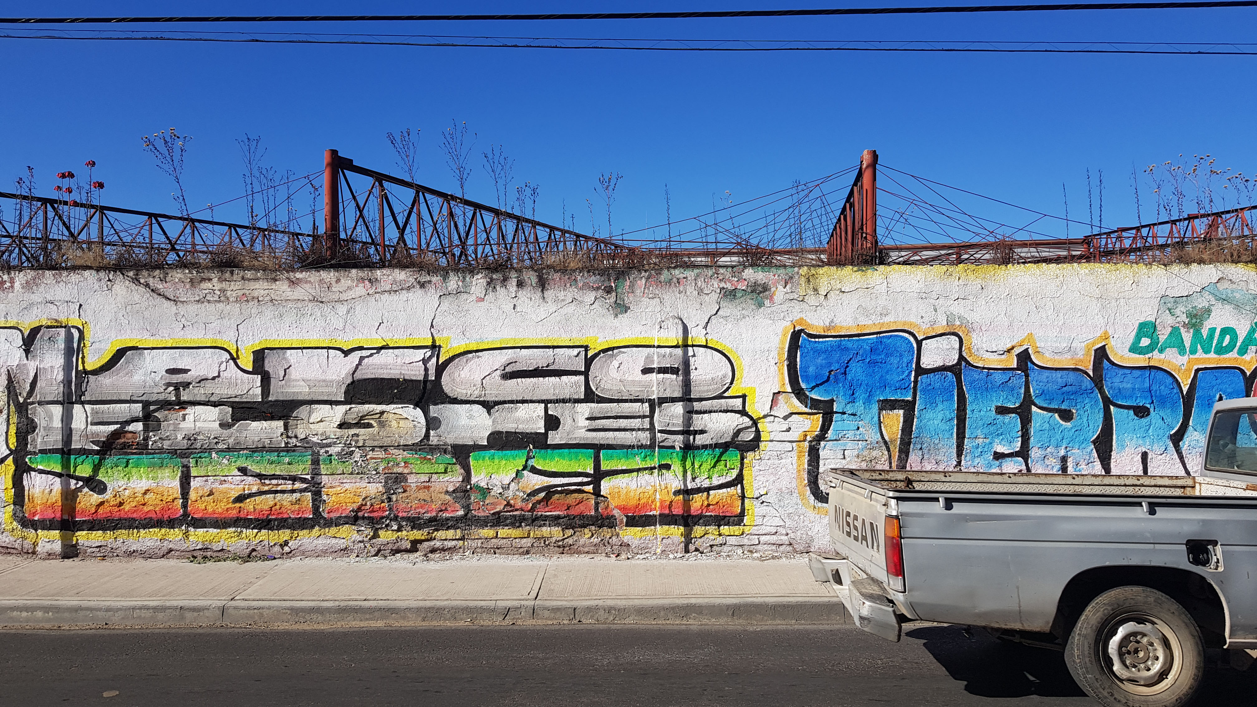 'Barda des Baille (Music Wall)' in the Mexican city of Oaxaca de Juárez. The Logo of the Mexican band 'Marco Flores Jerez' can be seen on the left.